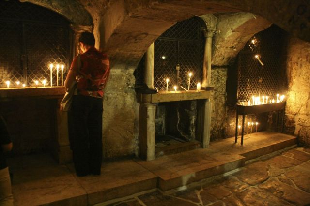 For more pictures and videos of Israel, please visit here.